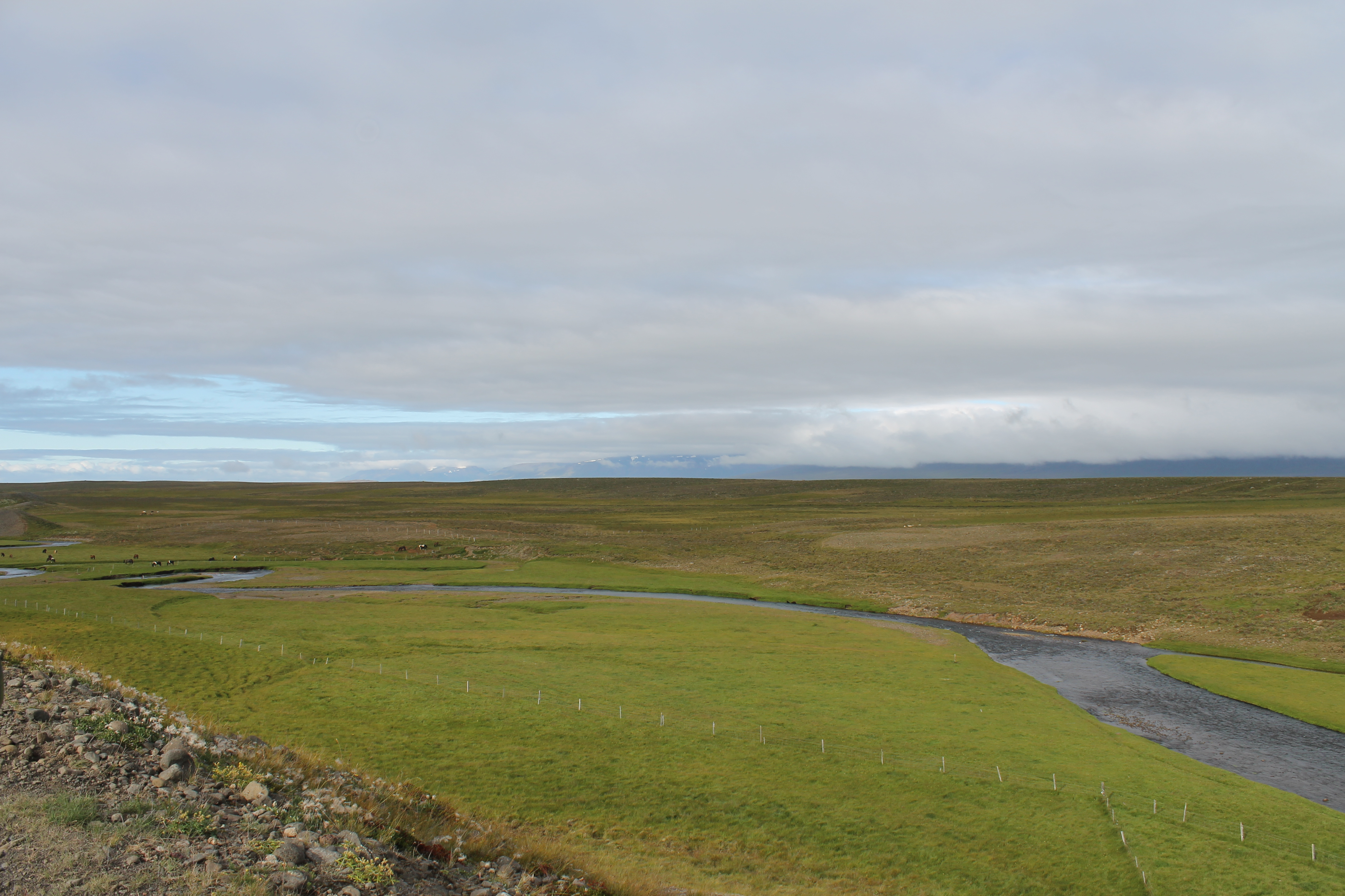 Sæmundará river, Skagafjörður, Northern Iceland. Seen from Sæmundarhlíð towards east.